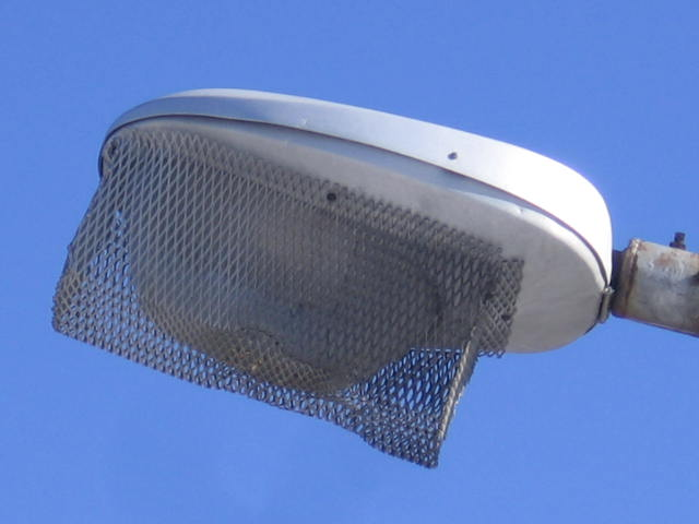 History of street lighting: Joslyn Mfg. and Supply MV121 (100–250 watts); MV121 with wireguard from Kennedy School in Brockton, MA